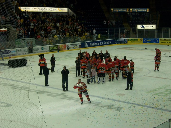 Nottingham Panthers celebrate winning the 2010 Challenge Cup.